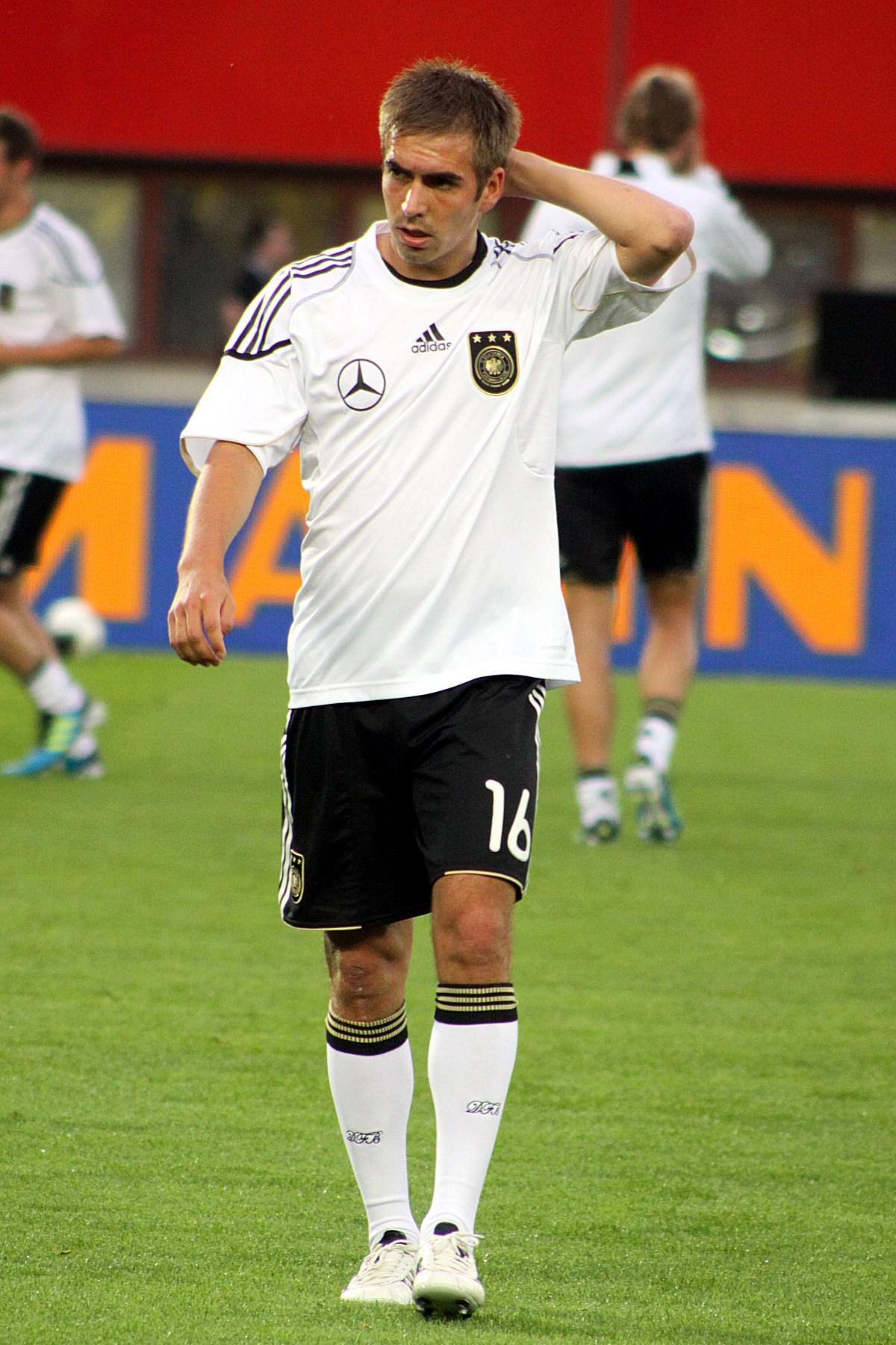 Philipp Lahm (FC Bayern Munich), german national football team - OpenStreetMap(Info)